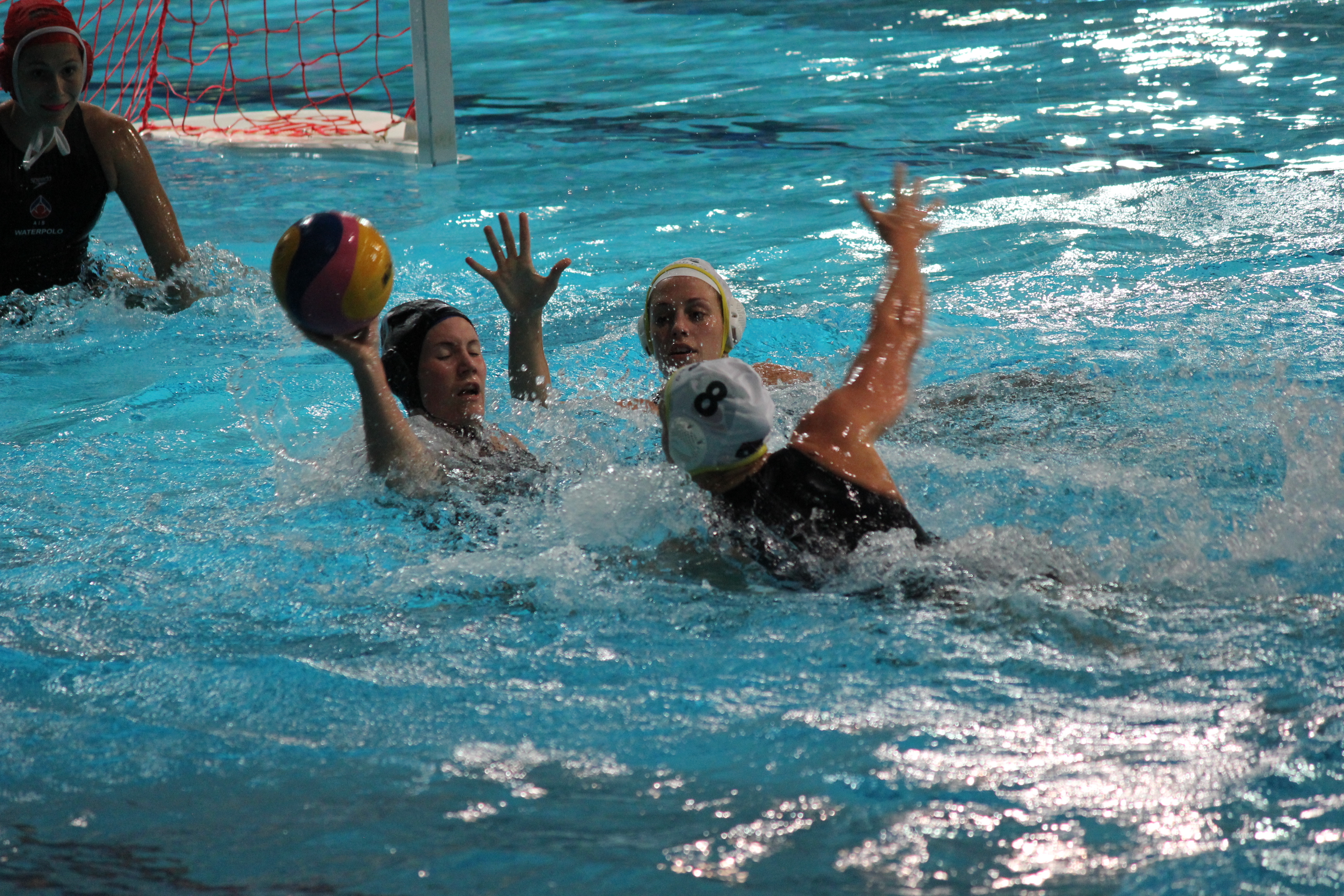 28 February 2012, fifth test match at the AIS Aquatic Centre between Australia women's national water polo team and Great Britain women's national water polo team. Australia won the test 14-3. Australia wore white caps and GBR wore black.